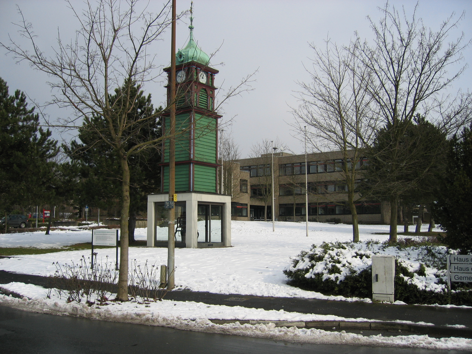 Town hall in town of Hiddenhausen, District of Herford, North Rhine-Westphalia, Germany.